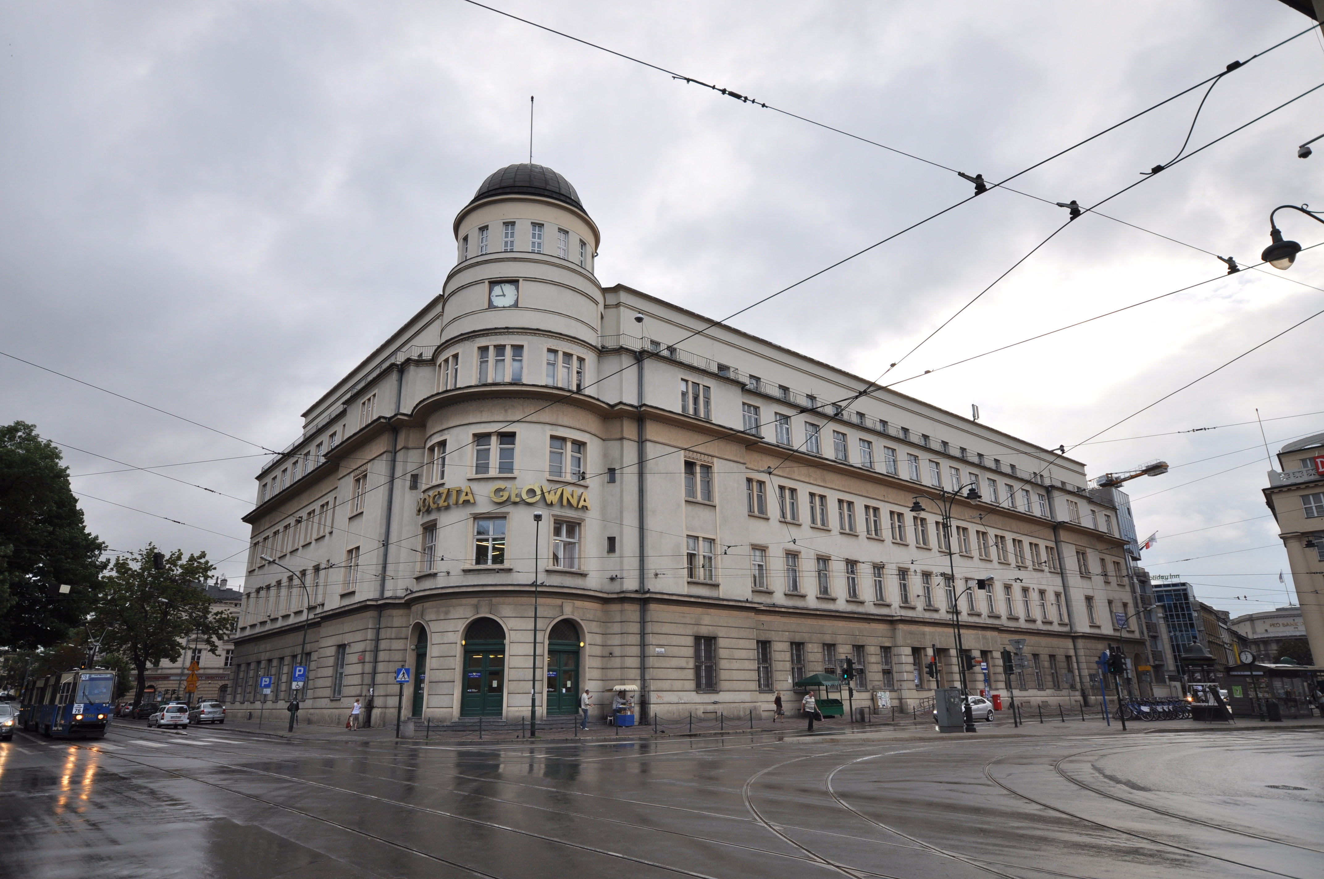 The Main Post Office in Kraków is located at the corner of Wielopole 2 and Westerplatte 20 streets. The building was designed by the Viennese architect F. Setz. Joseph Sareg adapted the project and it was built between 1887-1889 by Charles Knaus and Tadeusz Stryjeński. Since 1899 it was the headquarters of mail in Kraków. In 1909, it was the location of what is now the Polish automatic telephone exchange with a capacity of 3600 numbers. Due to growing needs for office surface, between 1930 and 1931 it was rebuilt by Frederick Tadaniera. The interiors and furnishings were updated and in 1933 the intercity telephone exchange was installed. Another reconstruction took place during the German occupation. The Polish Post Office reopened on January 22, 1945. After the war, the post office has repeatedly being modernized and repaired. Since 1991 it has housed the Polish Post and Telecommunications